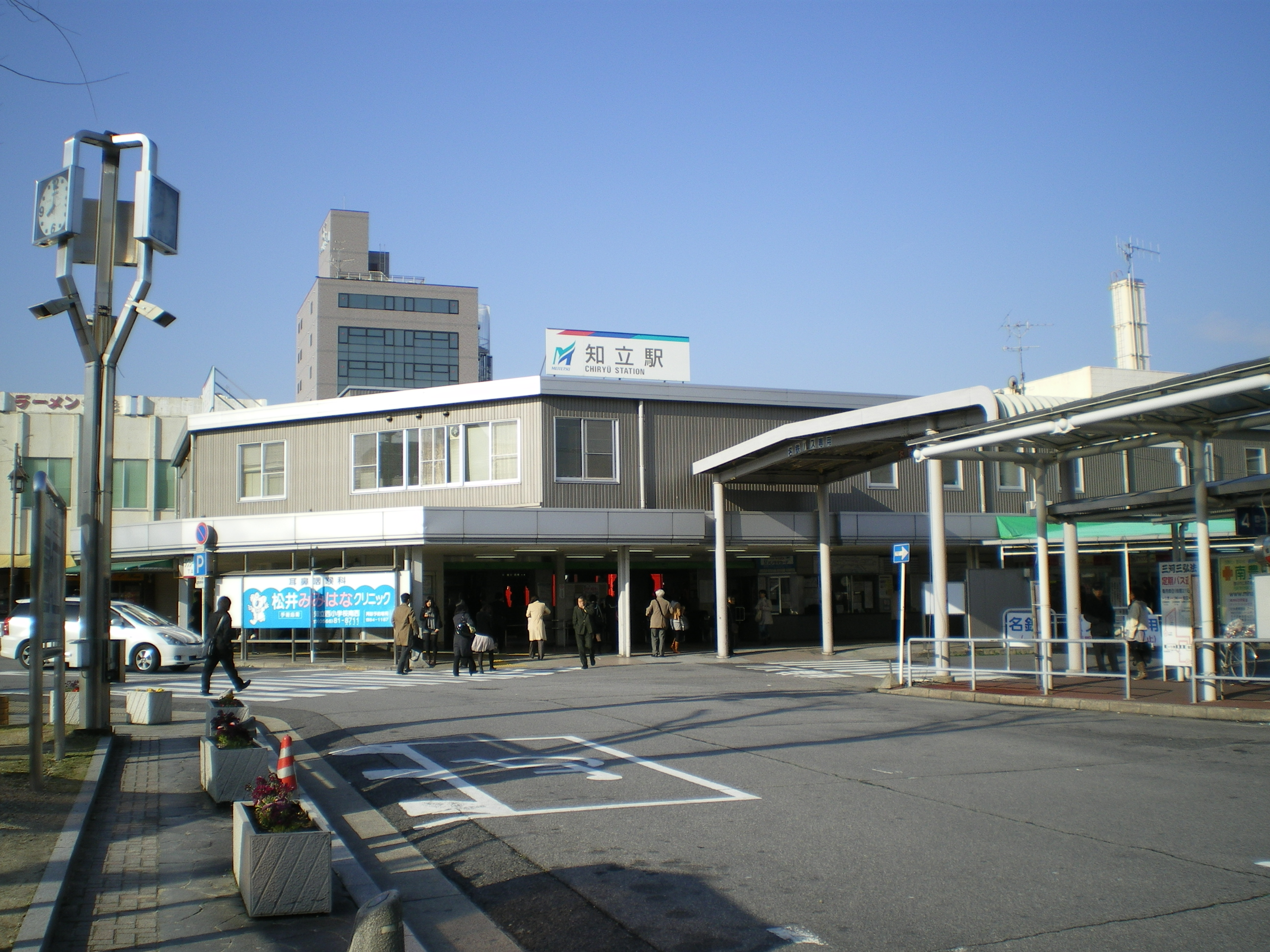 Nagoya Railroad Nagoya Main Line and Mikawa Line Chiryū Station Building